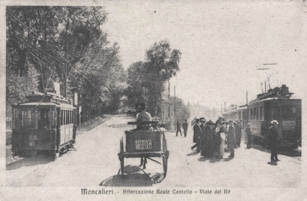 Moncalieri, crossroad